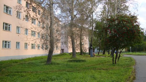 Park with a bust on memorial in distance — in Belomorsk, the Republic of Karelia.